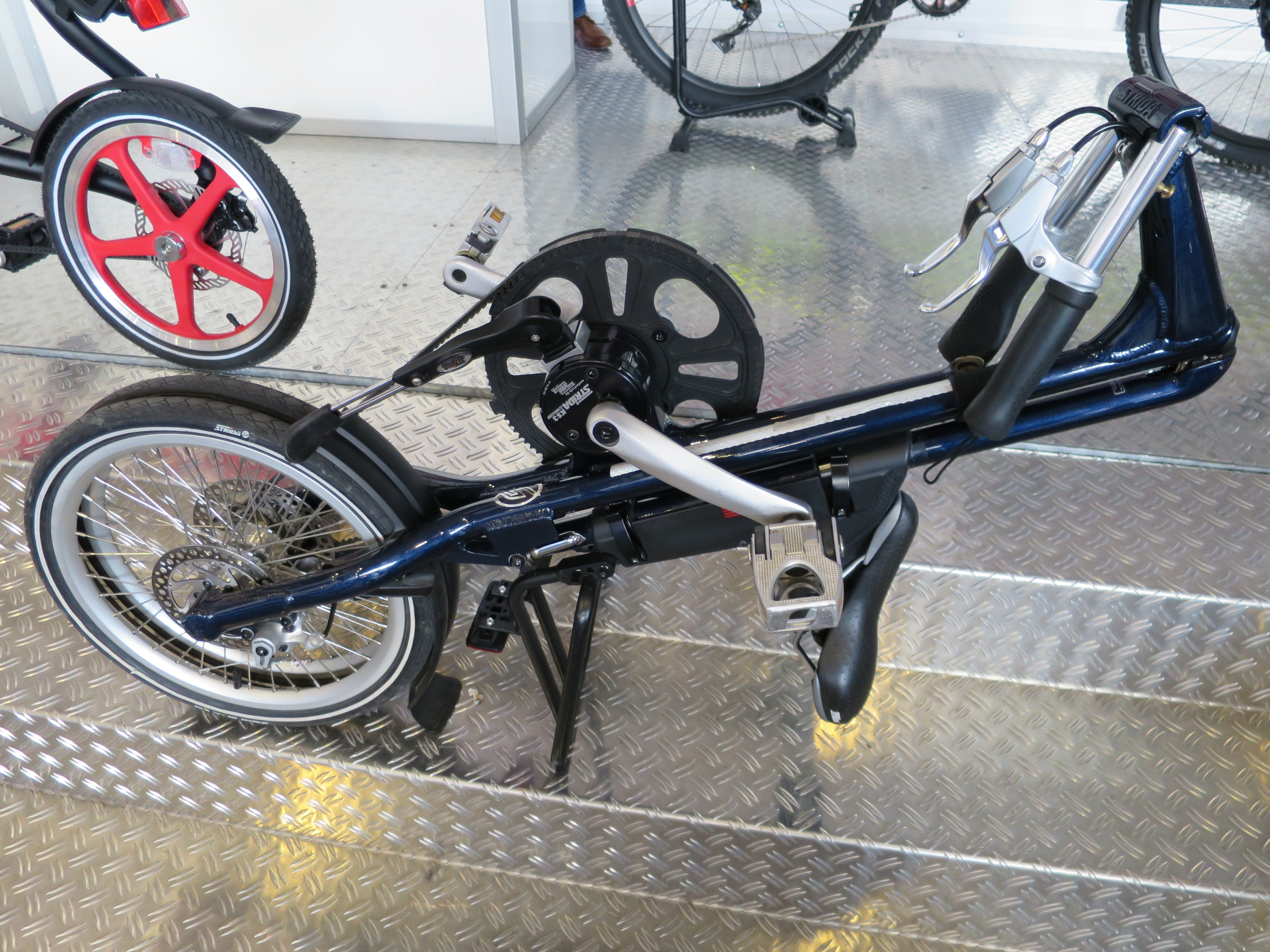 Strida VELO BERLIN 2017.